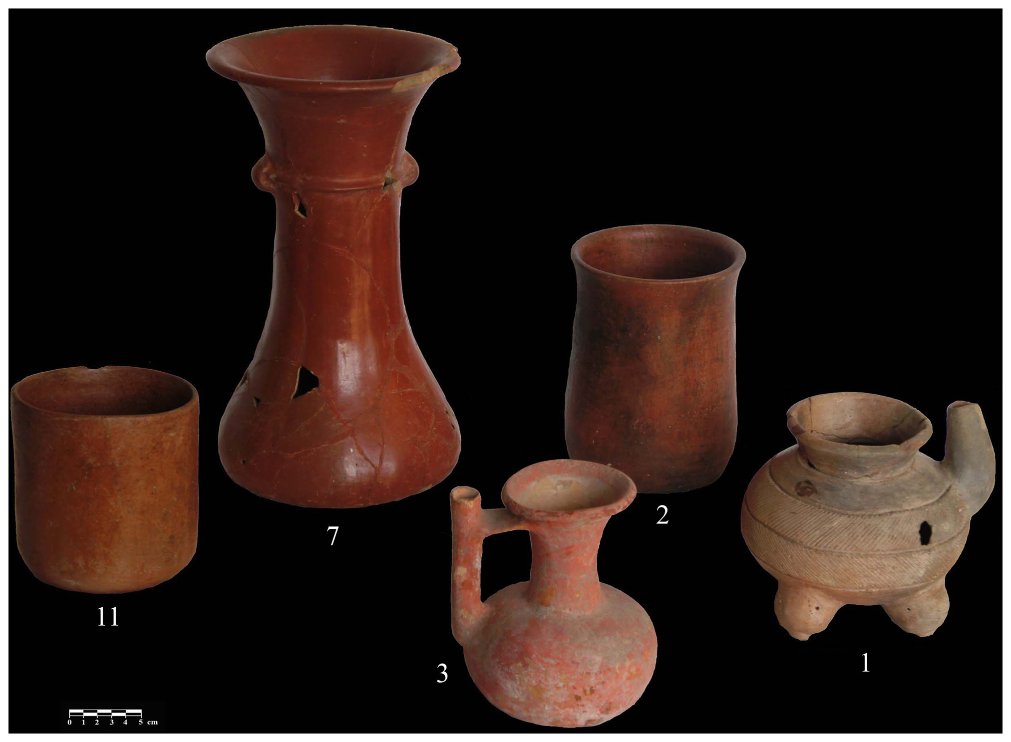 Image of the five vessels that tested positive for Capsicum from Chiapa de Corzo. show more Photos by Roberto Lopez and Emiliano Gallaga Murrieta.